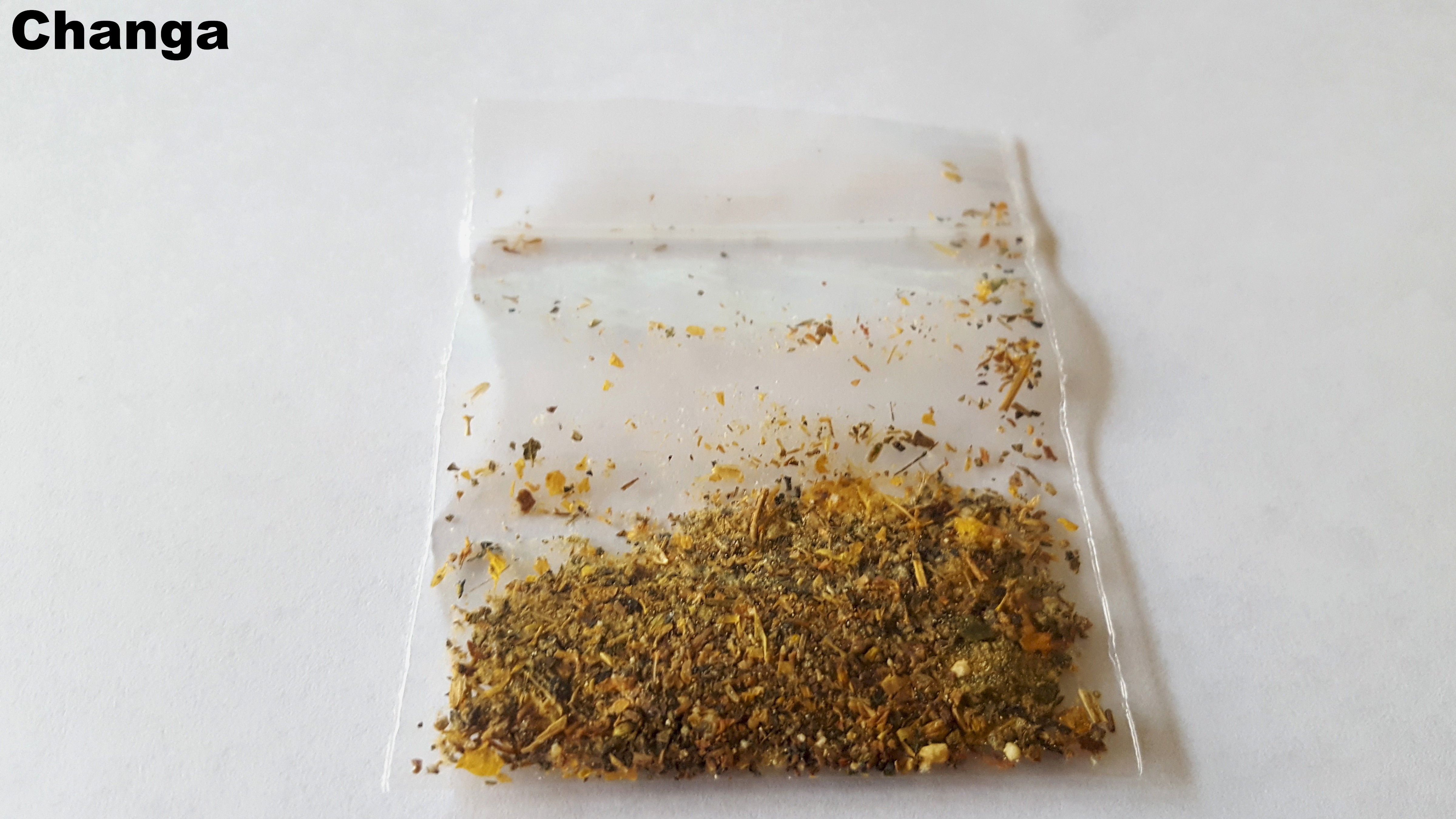 Psychedelic. Changa is also known as Aussiewaska